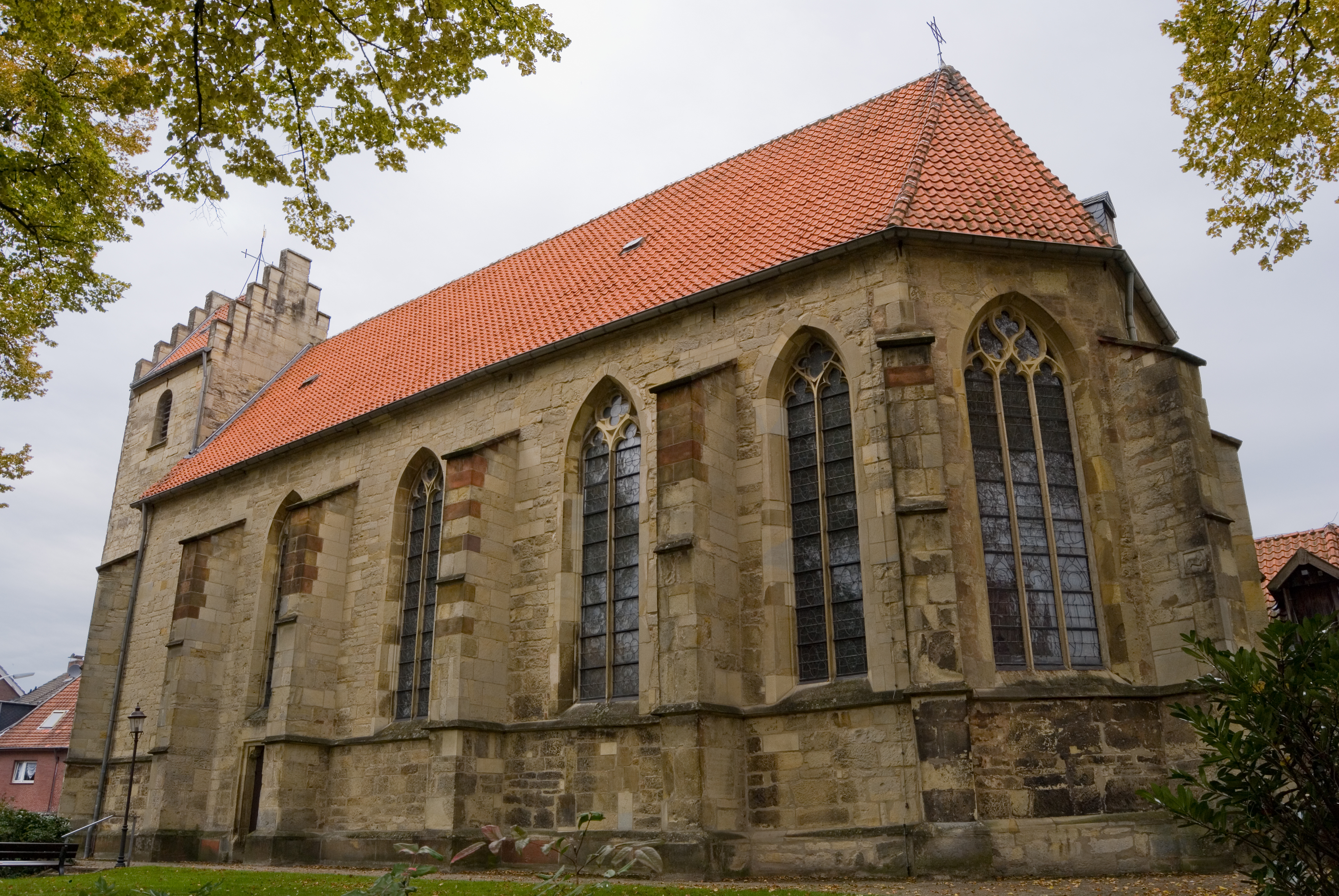 Nottuln (North Rhine-Westphalia, Germany) – district Darup – Catholic Saints Fabian and Sebastian Church – viewed from southeast This photograph was taken with a Nikon D3000.